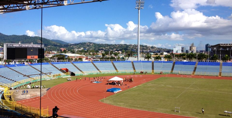 Hasely Crawford Stadium,Port of Spain, Trinidad & Tobago (2013)